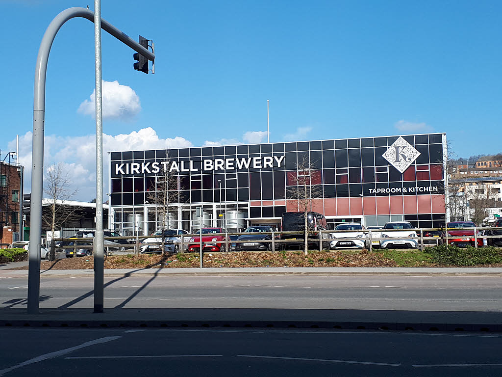 Kirkstall Brewery, Cavendish Street, Leeds